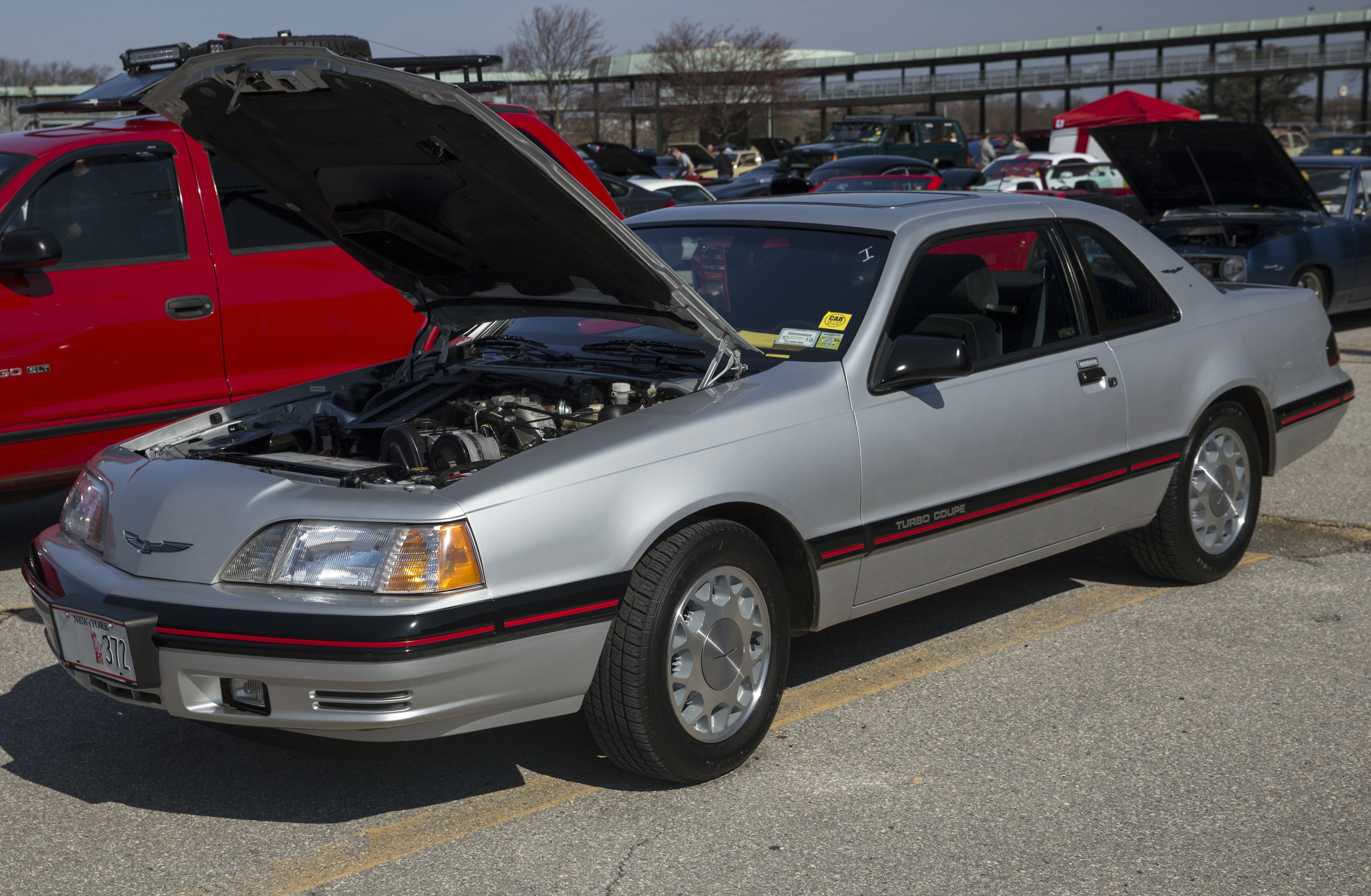 A 1987 Ford Thunderbird Turbo Coupé at the Belmont Race Track.